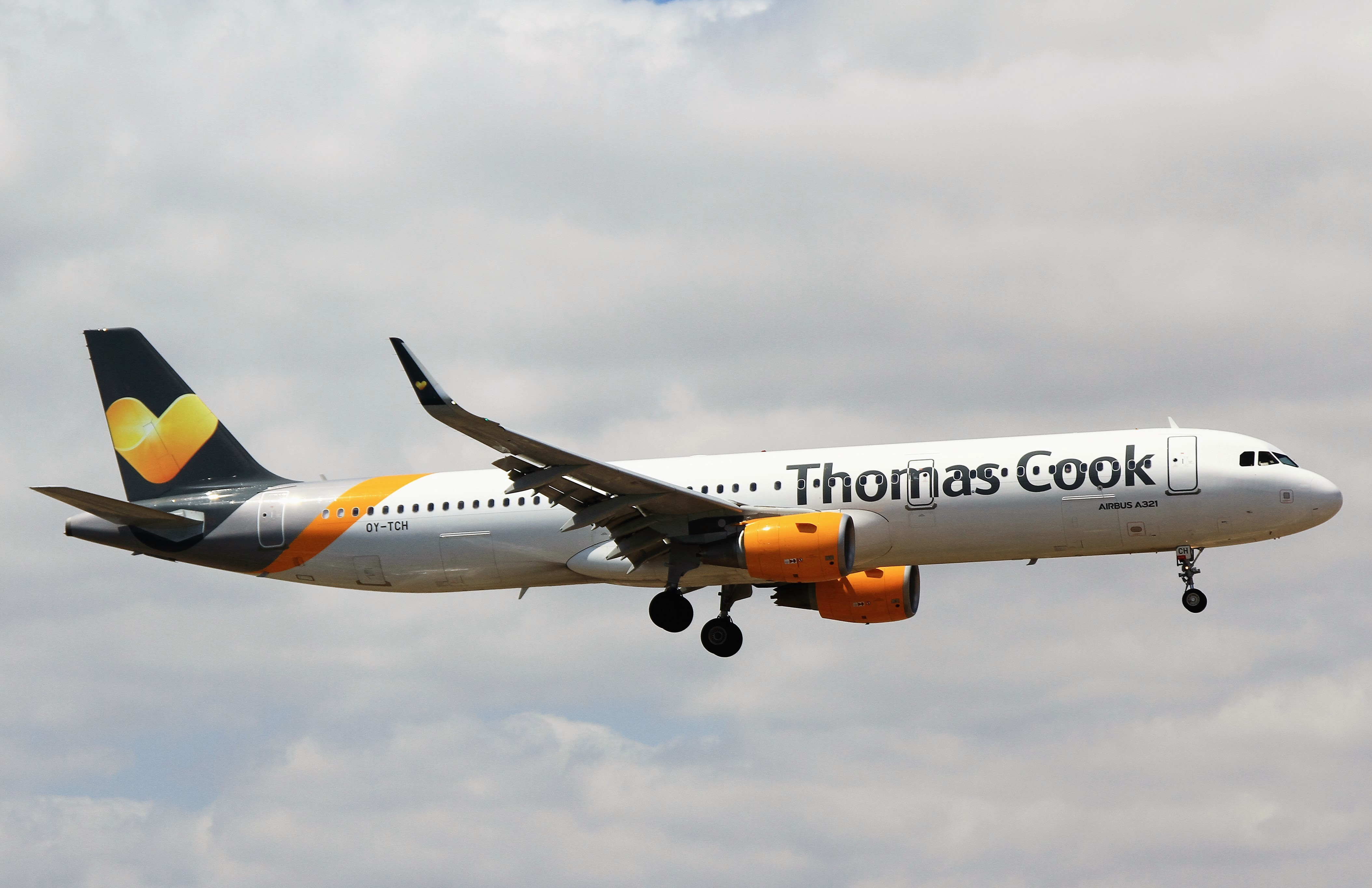 OY-TCH A321 Thomas Cook Lanzarote 25-03-2016